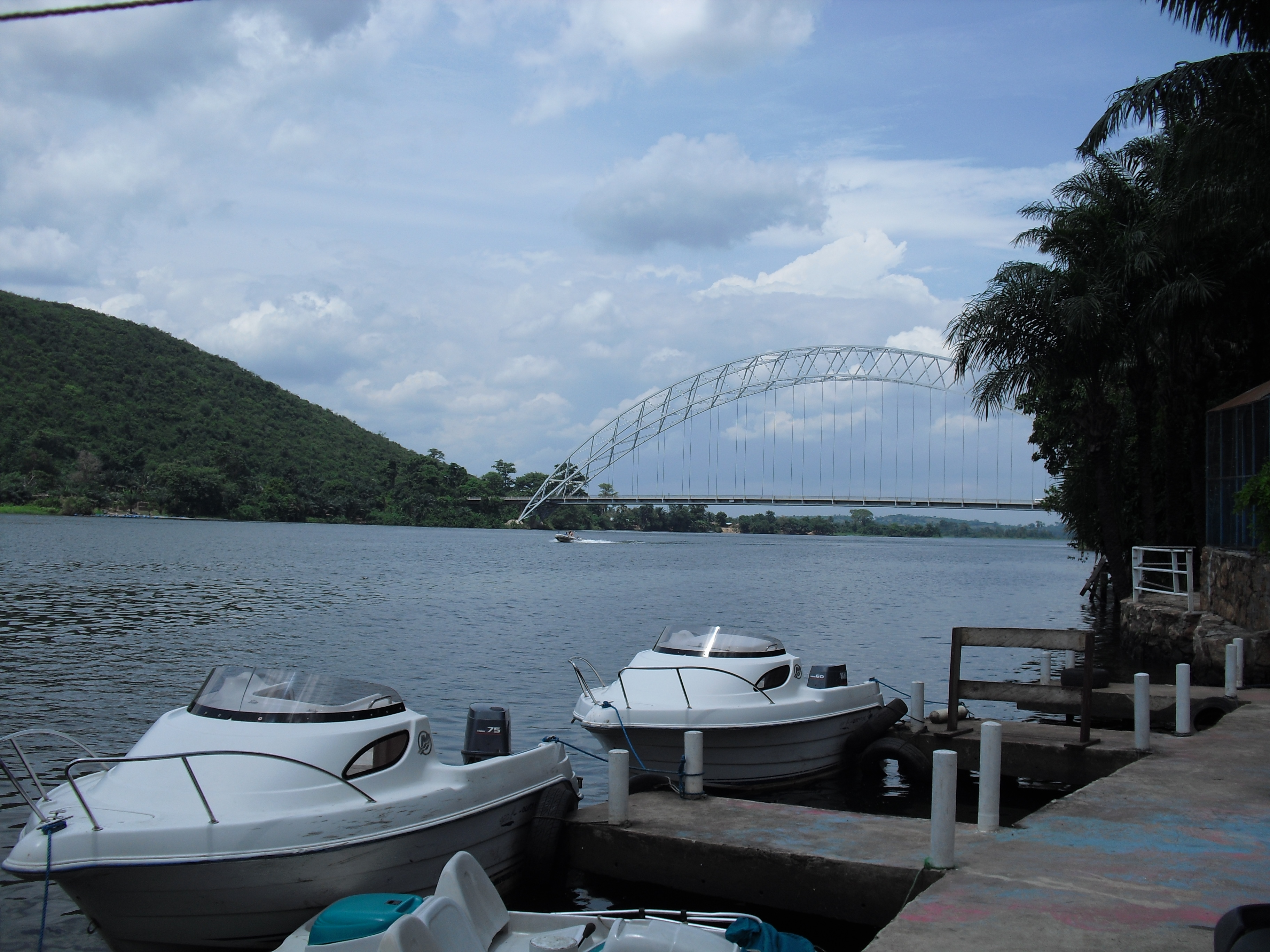 The Adomi Bridge spans over the Volta River at Atimpoku, about 10 km from Akosombo in the Eastern Region of Ghana. The arch-suspension bridge was built between 1955-56.